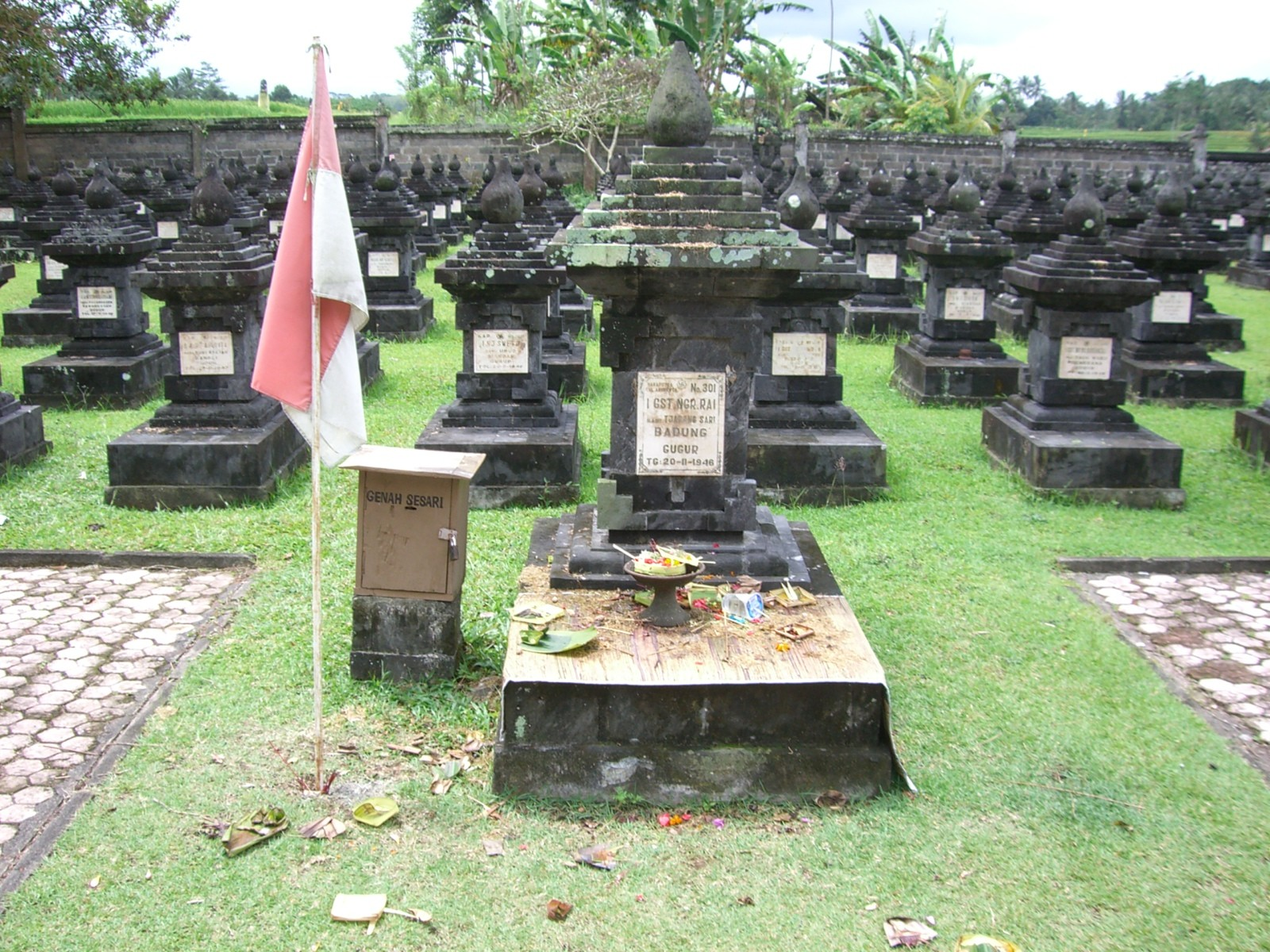 The tomb of I Gusti Ngurah Rai, commander of the Indonesian forces in Bali against the Dutch during the Indonesian War of Independence.